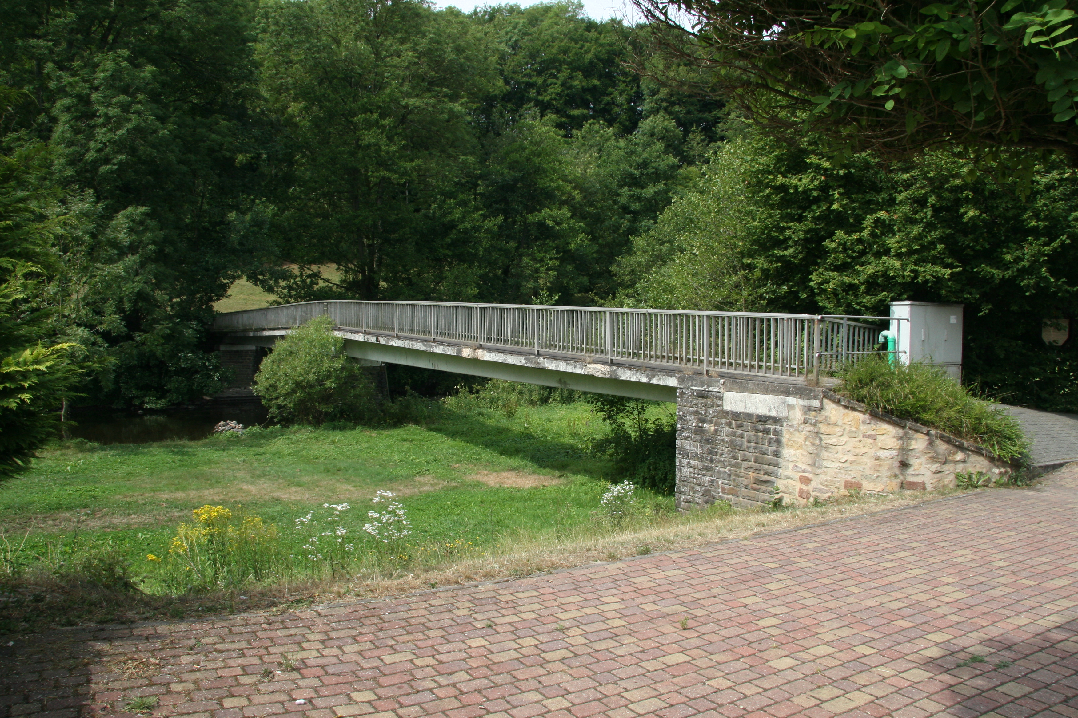 View from Germany on the bridge of Gentingen (D) between Germany and Luxembourg.